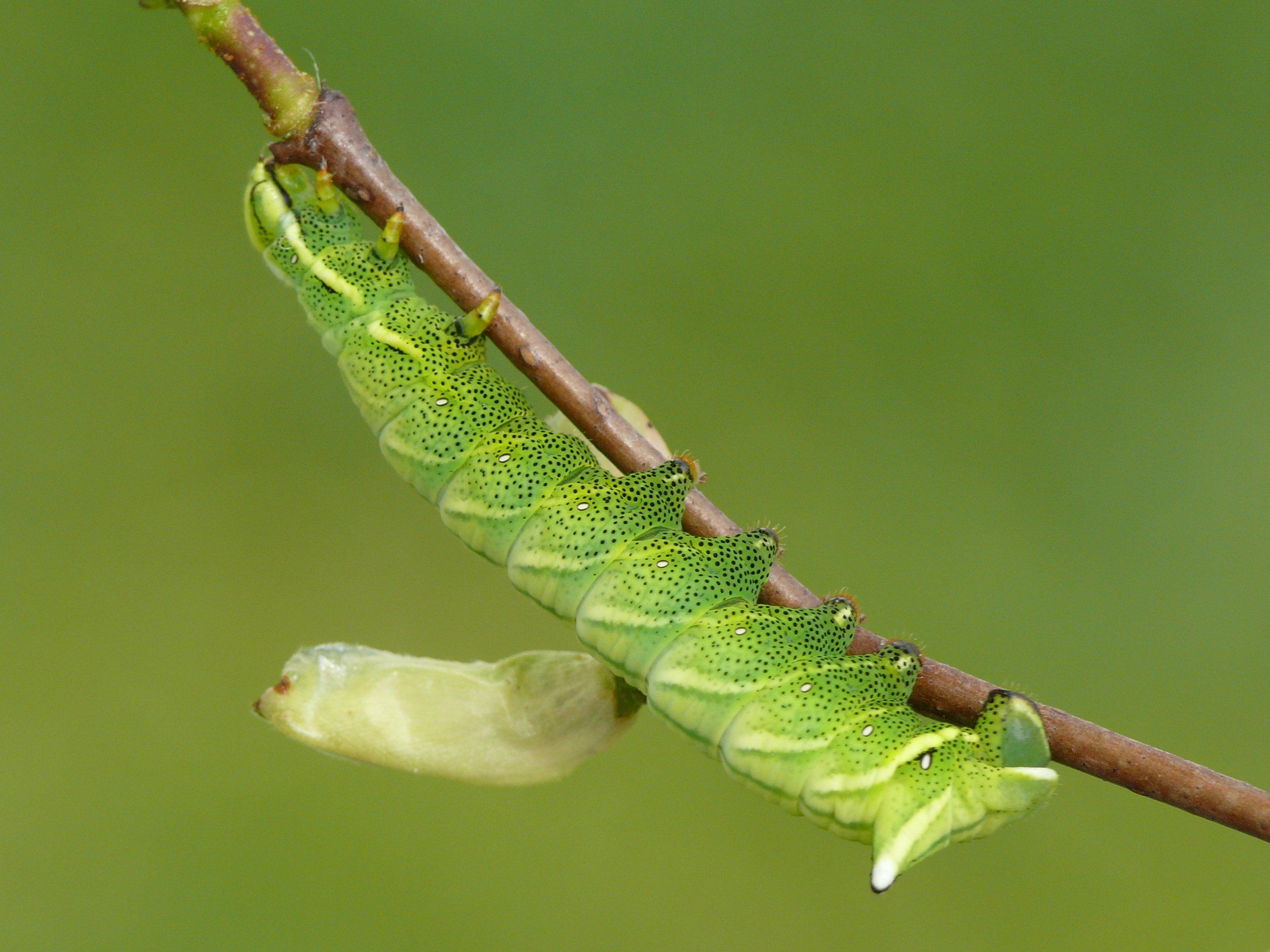 Caterpillar of Kentish Glory (Endromis versicolora) in fourth instar (L4).